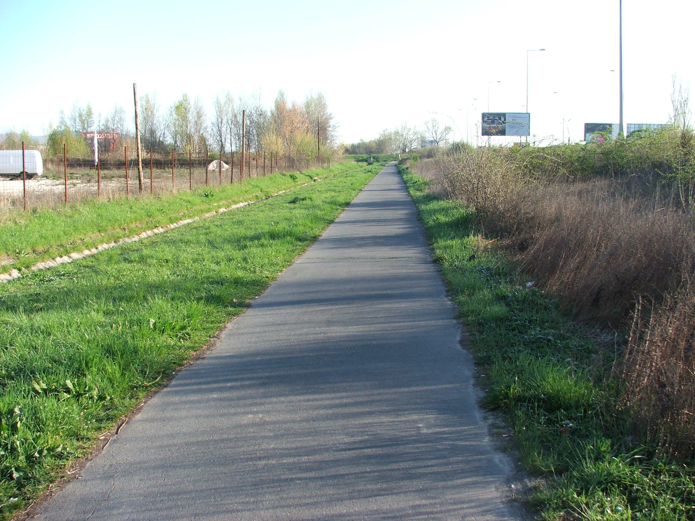 Bikeway in Hungary, Budapest